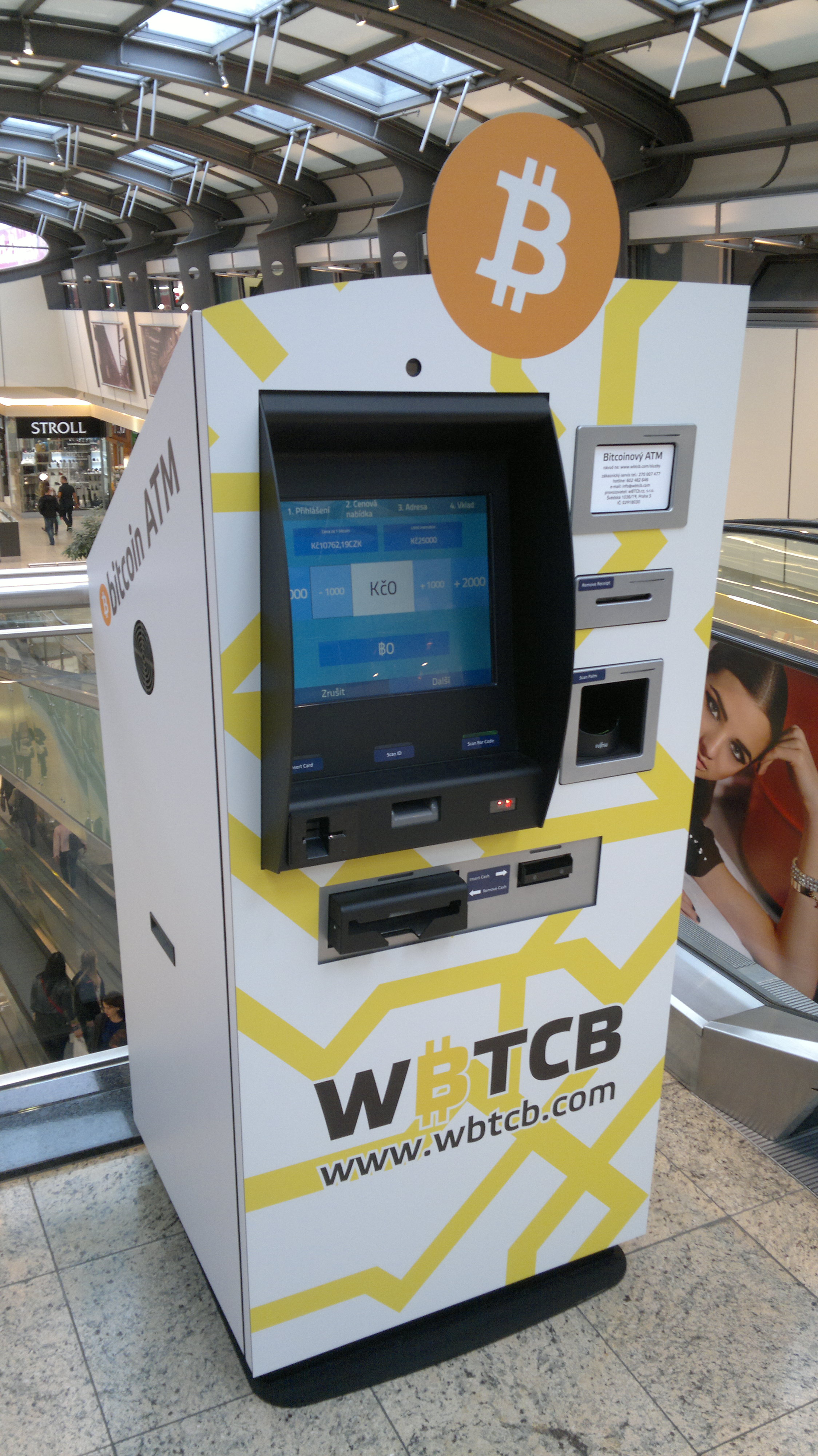 Bitcoin ATM - Brno, Czech Republic